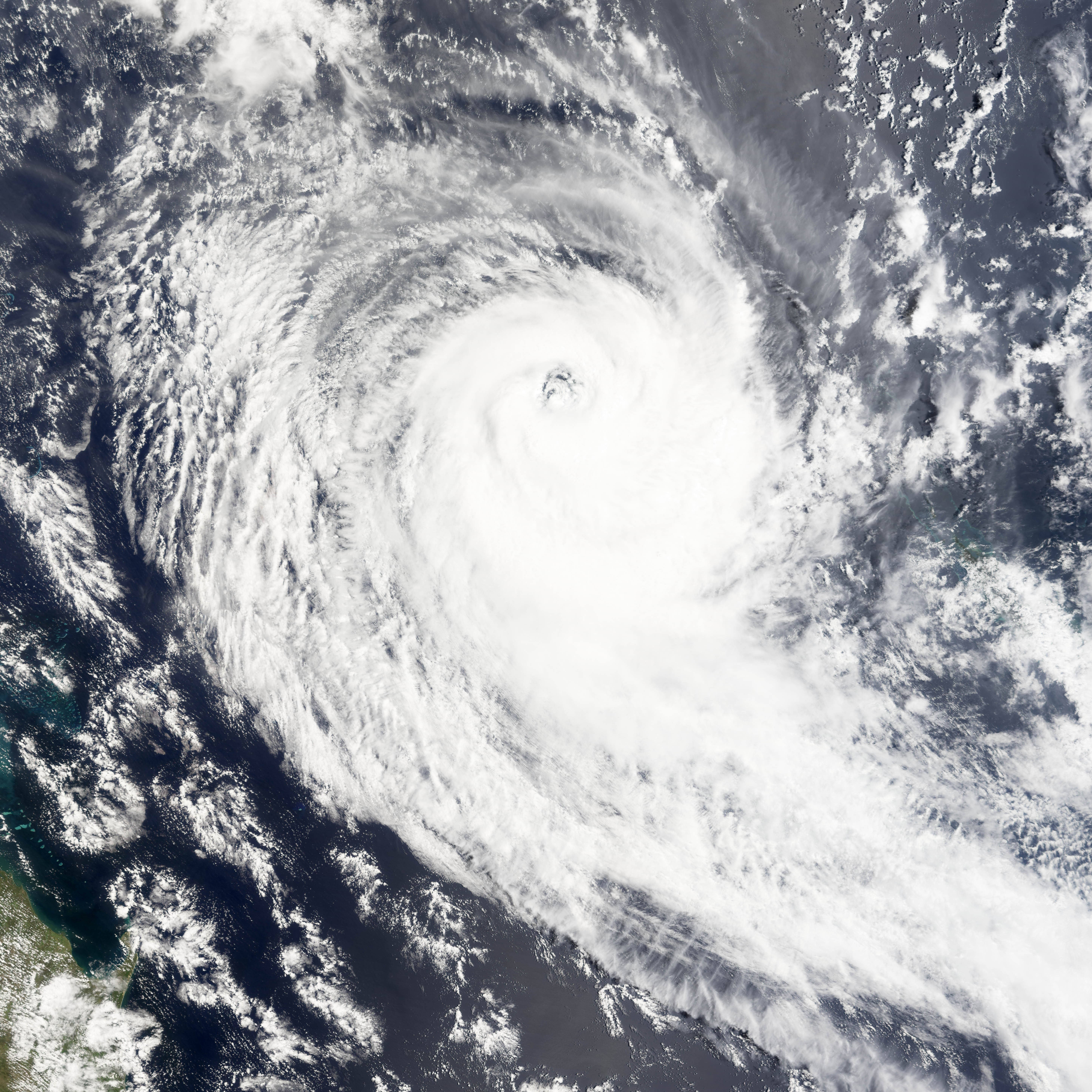 Topical Cyclone Kerry formed on January 6, 2005, near Fiji, and then began drifting westward toward Australia’s northeast coast. This image from the Moderate Resolution Imaging Spectroradiometer (MODIS) on NASA’s Terra satellite shows Cyclone Kerry on January 9, 2005. Although the storm reached Category-3 strength at one point in its life cycle, by Wednesday, January 12, forecasters were reporting the storm had dropped to Category 1 status, and its westward progress had slowed. Although it was creating rough seas offshore, there was no immediate threat to the Queensland coast.